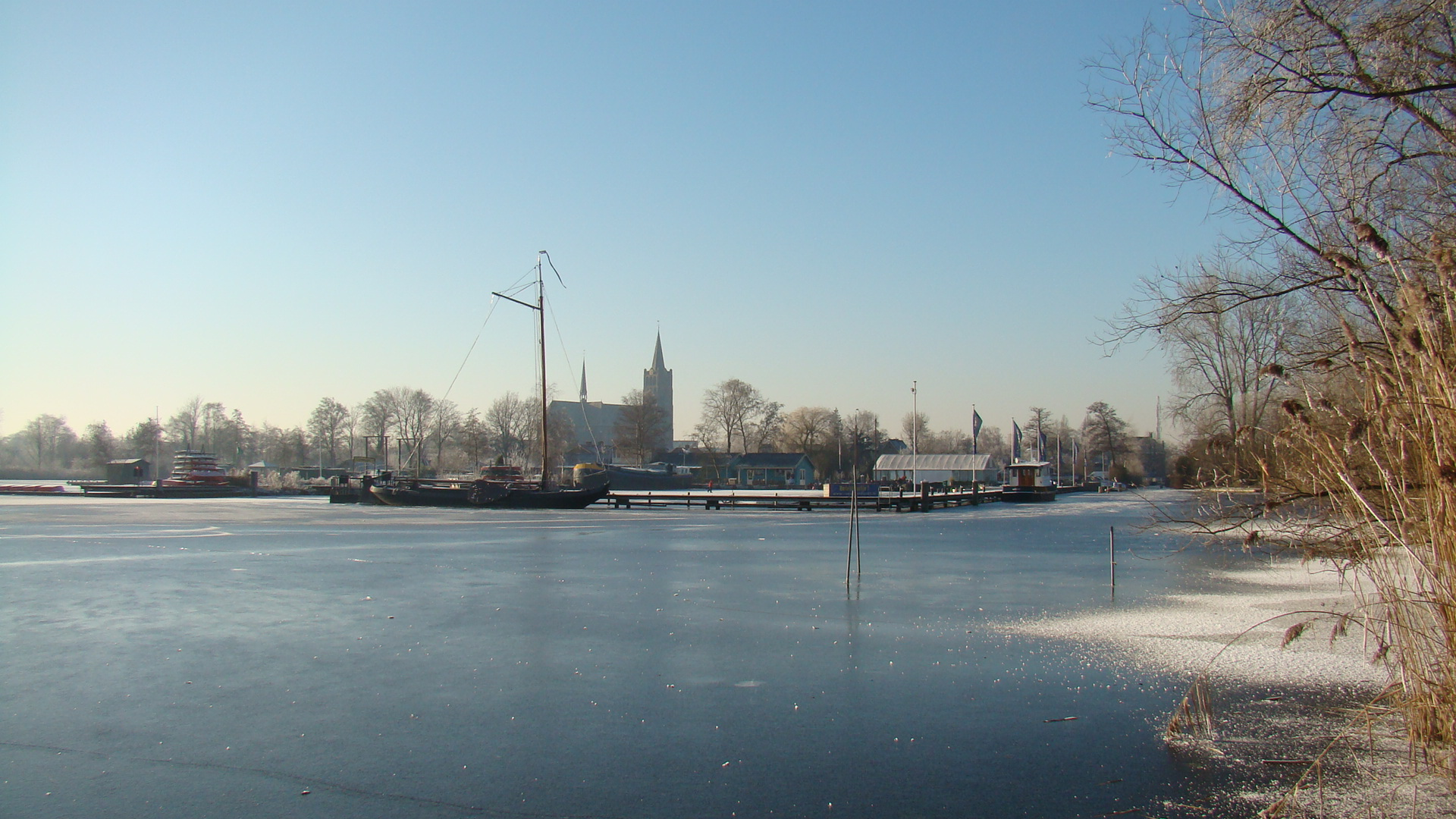 Vinkeveen, Vinkeveenseplassen view from rijksweg